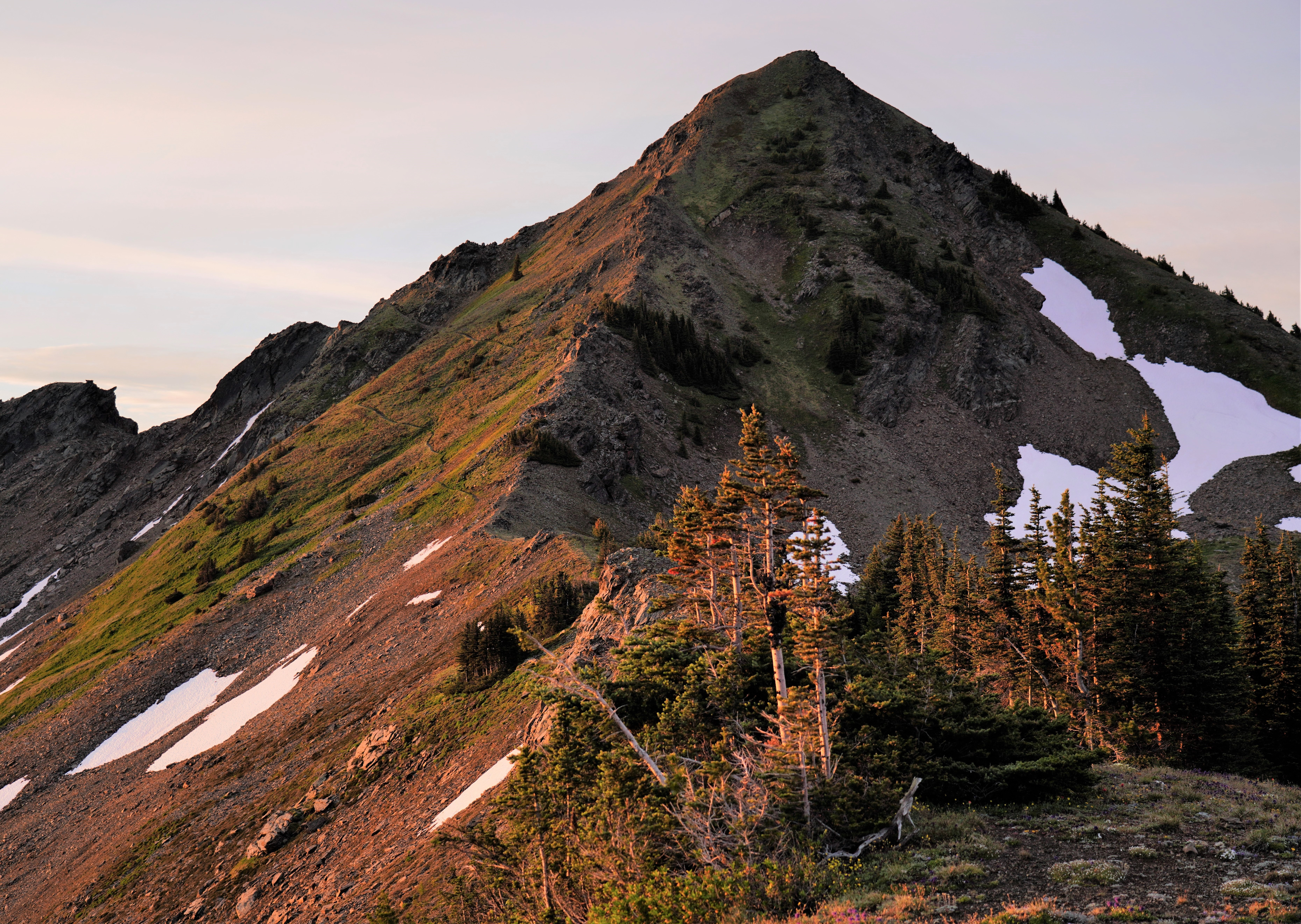 Cape Horn - On the left-side is the trail